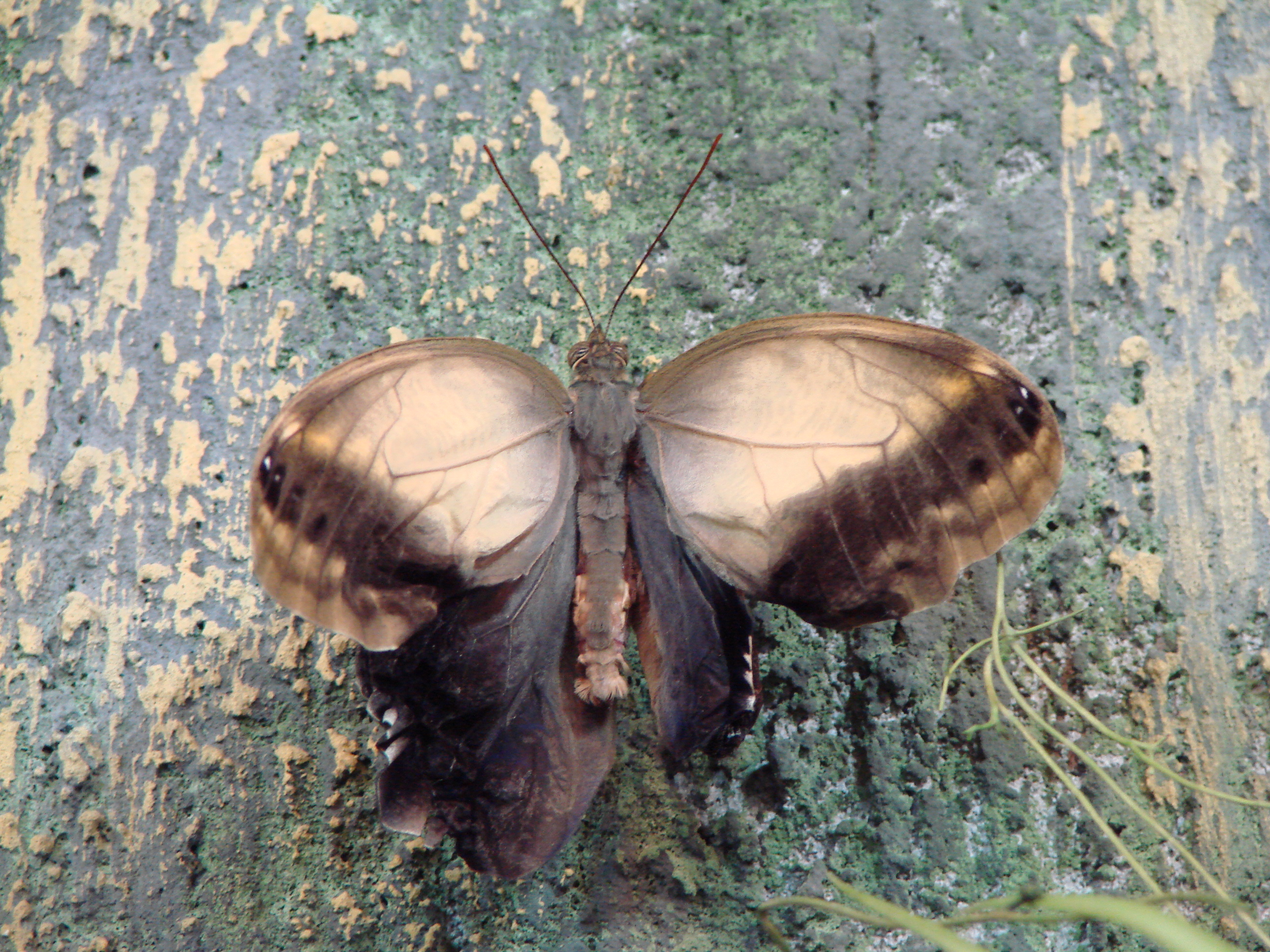 Picture taken in the zoo of Wrocław (Poland): Caligo oileus (C. & R. Felder, 1861)